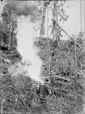 Australian War Memorial (AWM) catalog number 108558. A soldier from the Australian 2/23rd Battalion using a flamethrower against a Japanese bunker on Margy Feature, Tarakan Island.